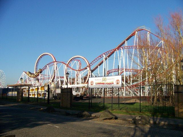 M&Ds Theme Park Unfortunately, not open during the schools' half term holiday - which seems a shame.